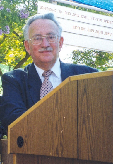 Zvi Harry Hurwitz, at the groundbreaking ceremony of the Menachem Begin Heritage Center, June 1998